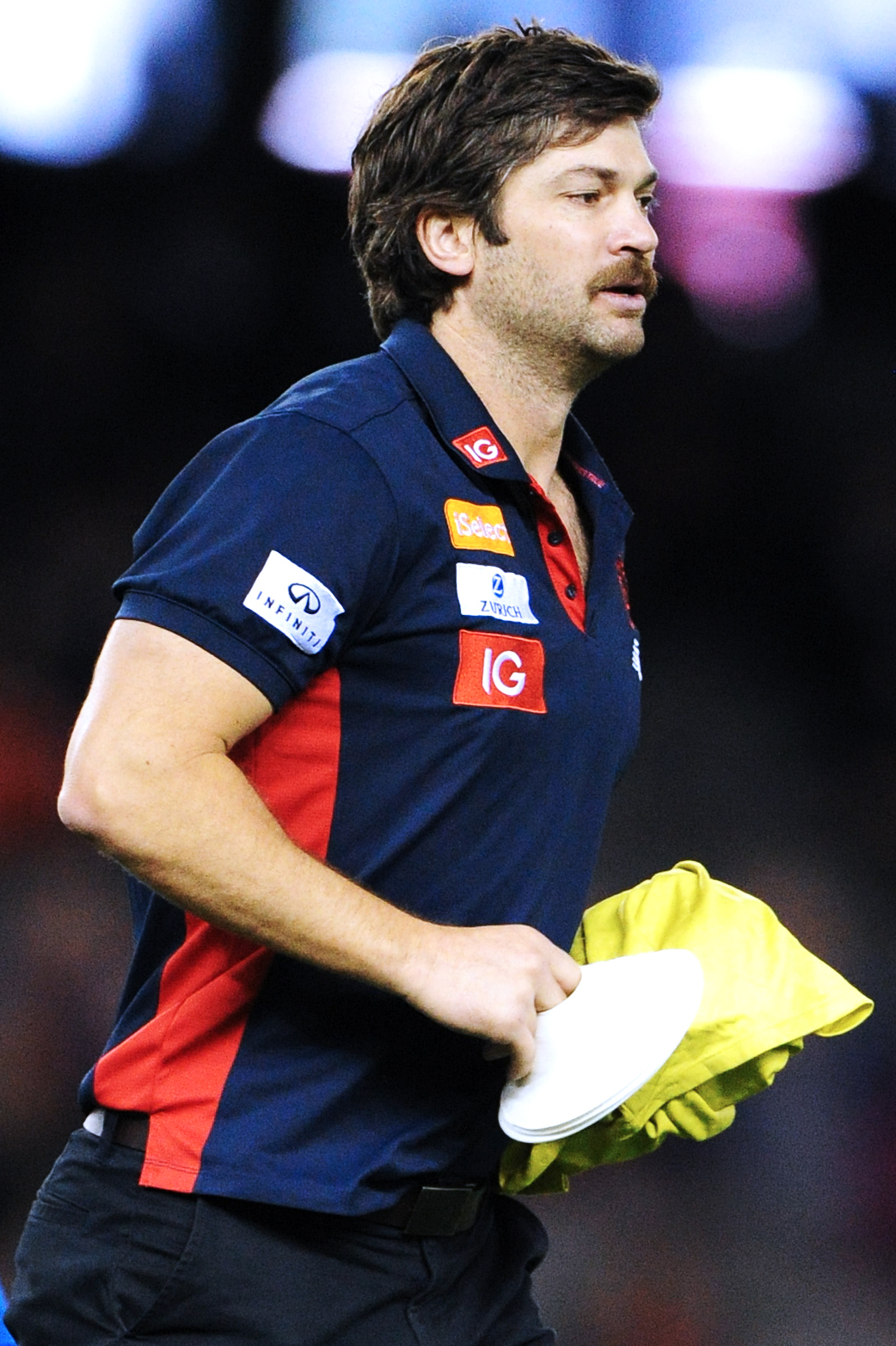 Max Rooke of Melbourne during the 2018 AFL round 6 match between Essendon and Melbourne at Etihad Stadium on Sunday, 29 April 2018 in Melbourne, Victoria.